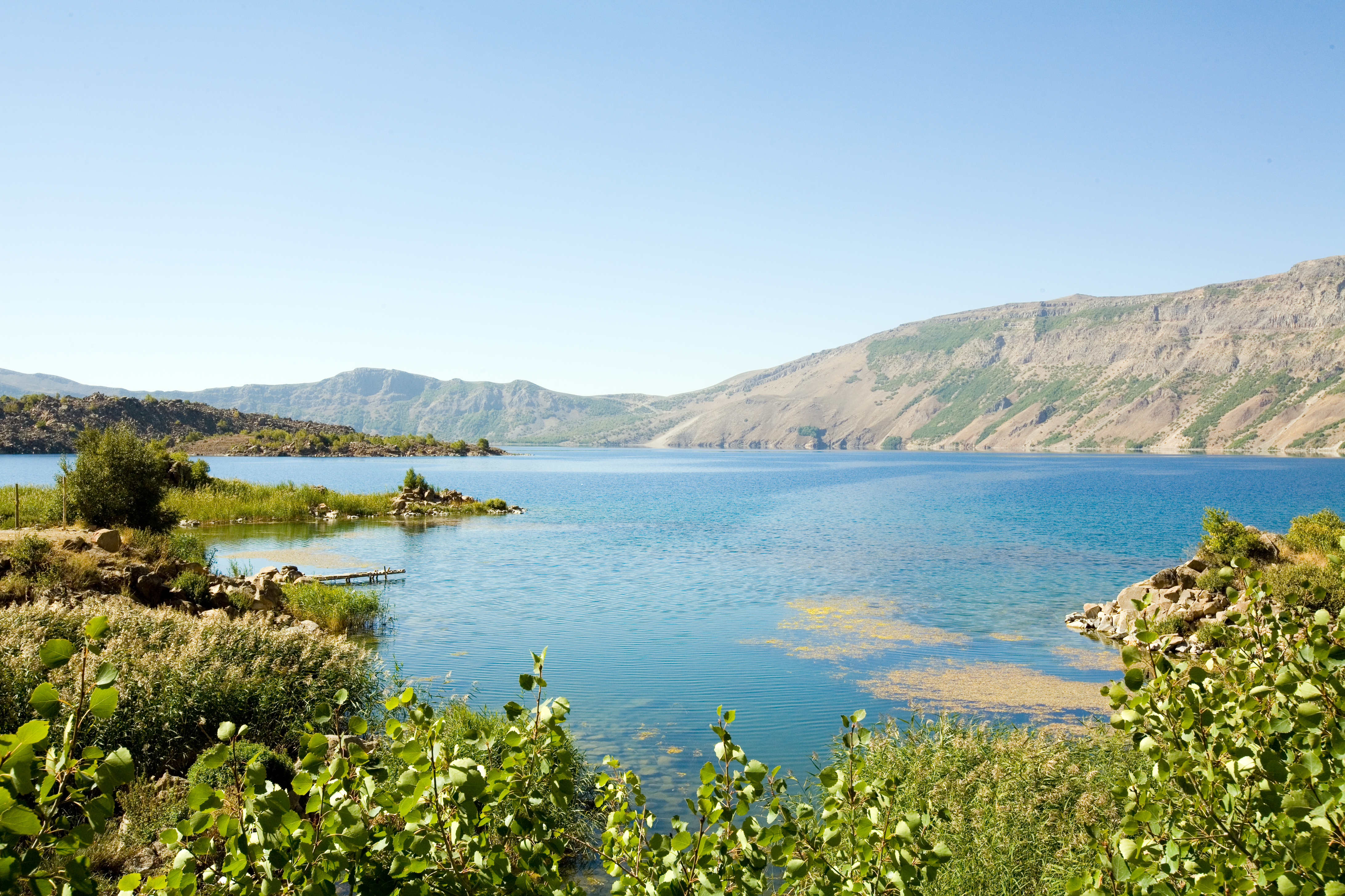 Lake Nemrut inside the crater of Nemrut Volcano